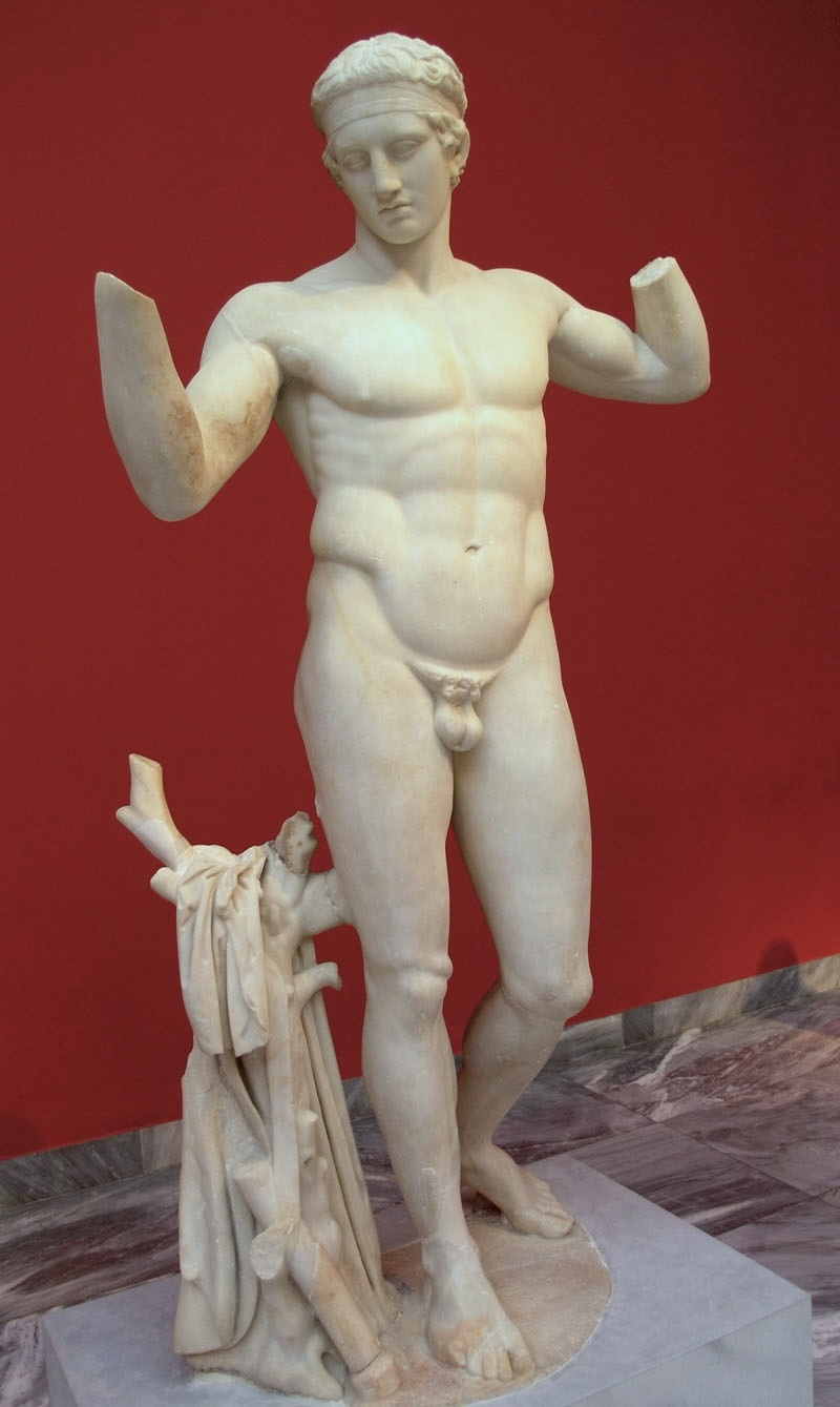 Youth tying the victor's ribbon around his head. Greek insular marble, Roman copy of the 1st century CE after a Greek original of ca. 450–425 BC; the tree trunk from wich the himation falls over was added by the copist. From the so-called House of the DIadumenos in Delos.